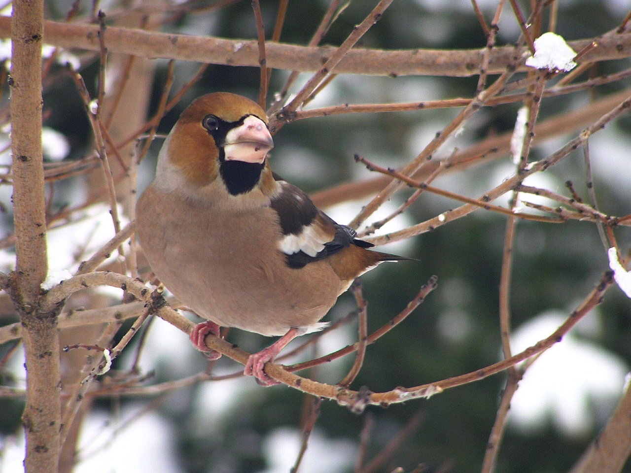 Hawfinch Coccothraustes coccothraustes in Bytom, Poland